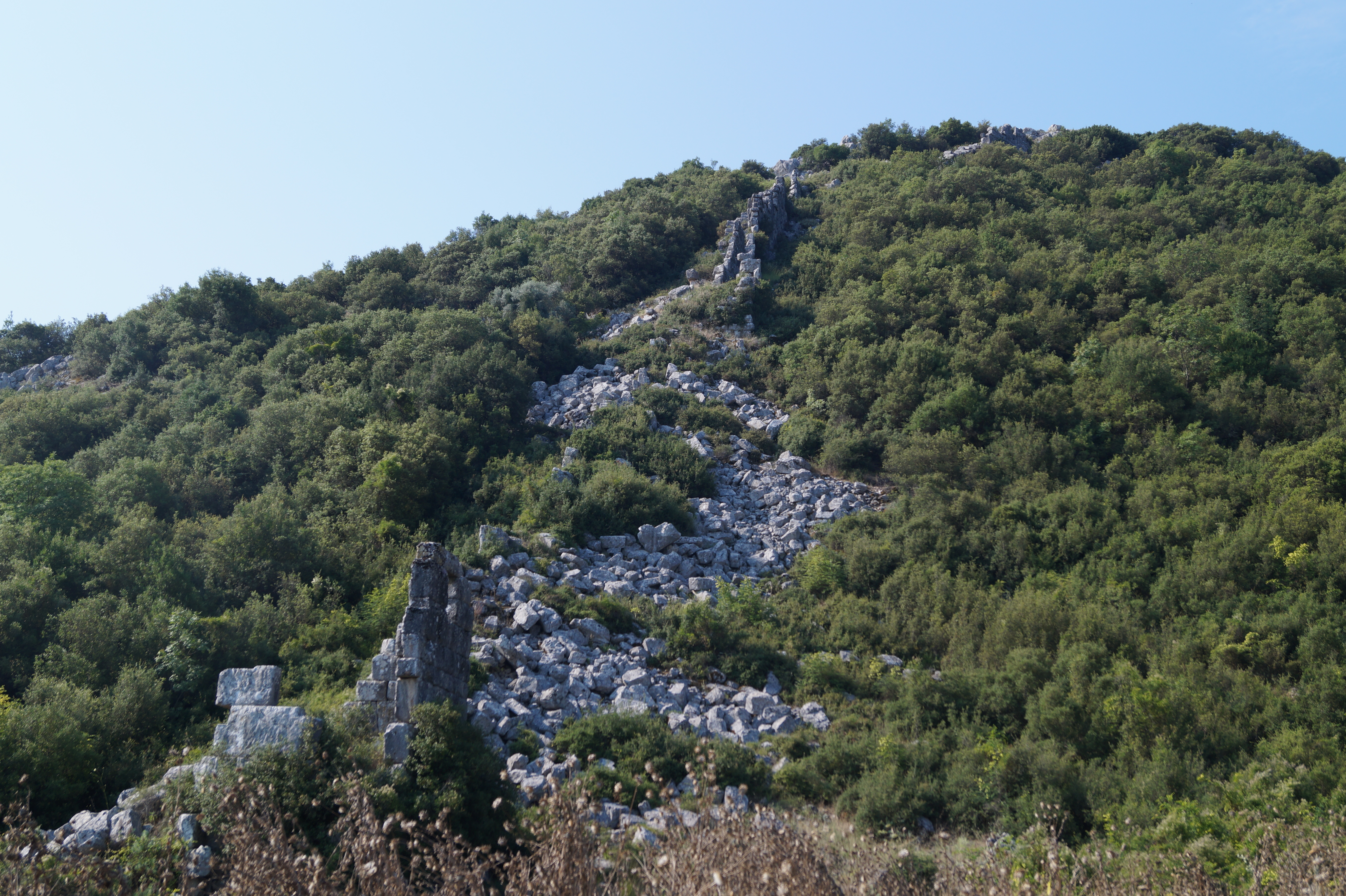 Greece, Phokida, Acropolis of Lilaia: Ancient city wall.